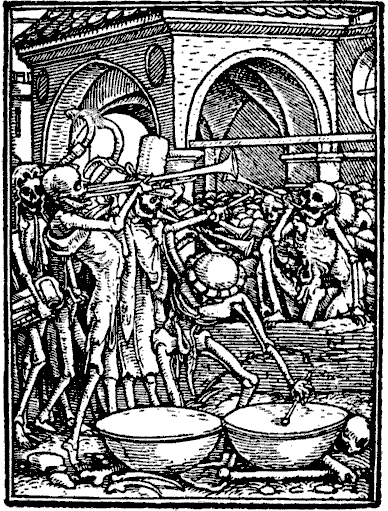 Beinhaus (House of Bones). Drawing number 32 from a series of 33 drawings of the Totentanz (Dance of Death). Image title: The original image has the following inscription in German language: Gebein aller Menschen (translation: the bones of all people).